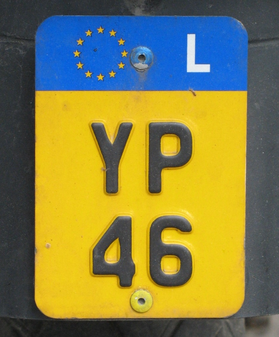 License plates of Luxembourg